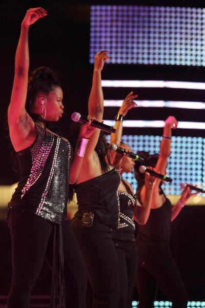 Picture of En Vogue at the Essence Music Festival.